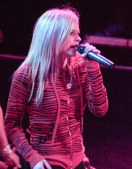 Avril Lavigne performing at Beijing Wukesong Arena during The Best Damn Tour on 6 October 2008.